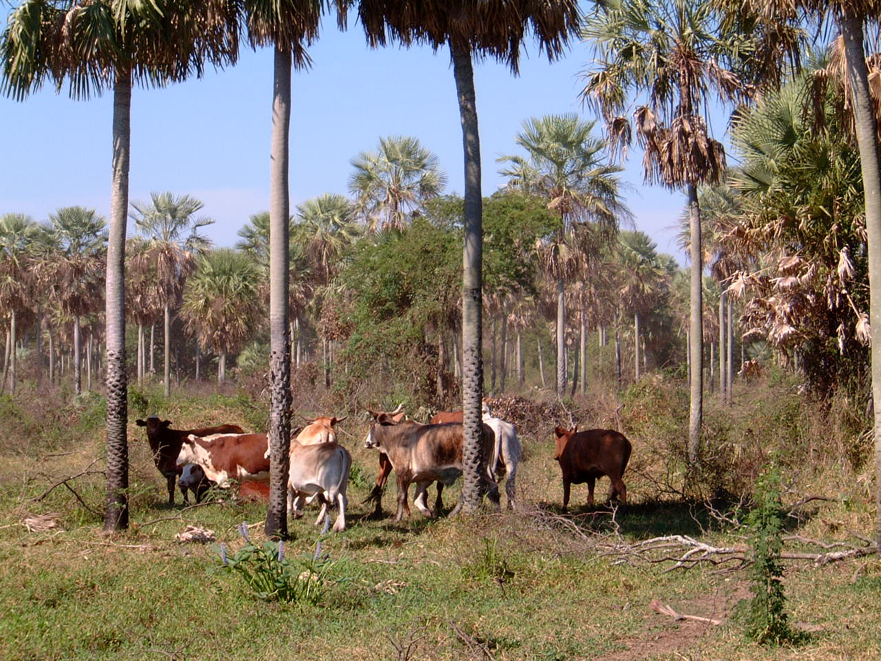 Chaco Paraguay, cattle ranch, Presidente Hayes Department